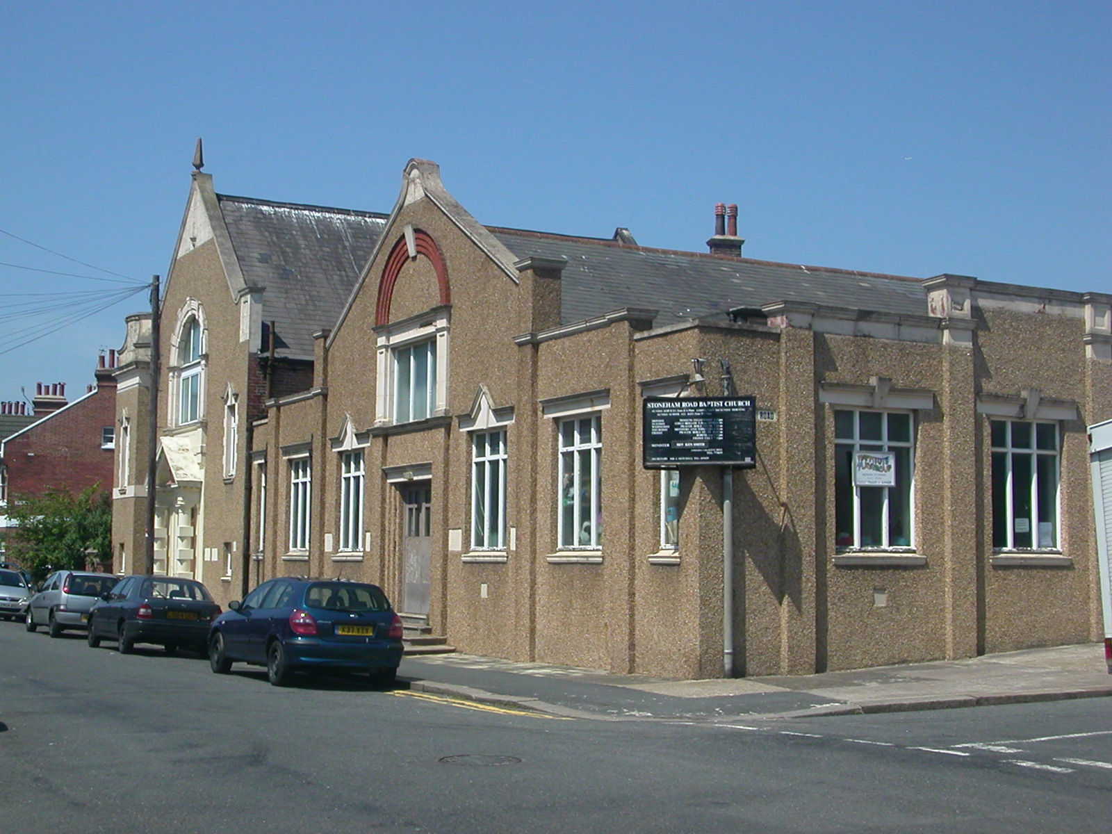 Stoneham Road Baptist Church, Aldrington, Hove. Photographed on 2nd June 2007. (Update: the church was closed and demolished in 2008. Housing called Poets Place now occupies the site.)